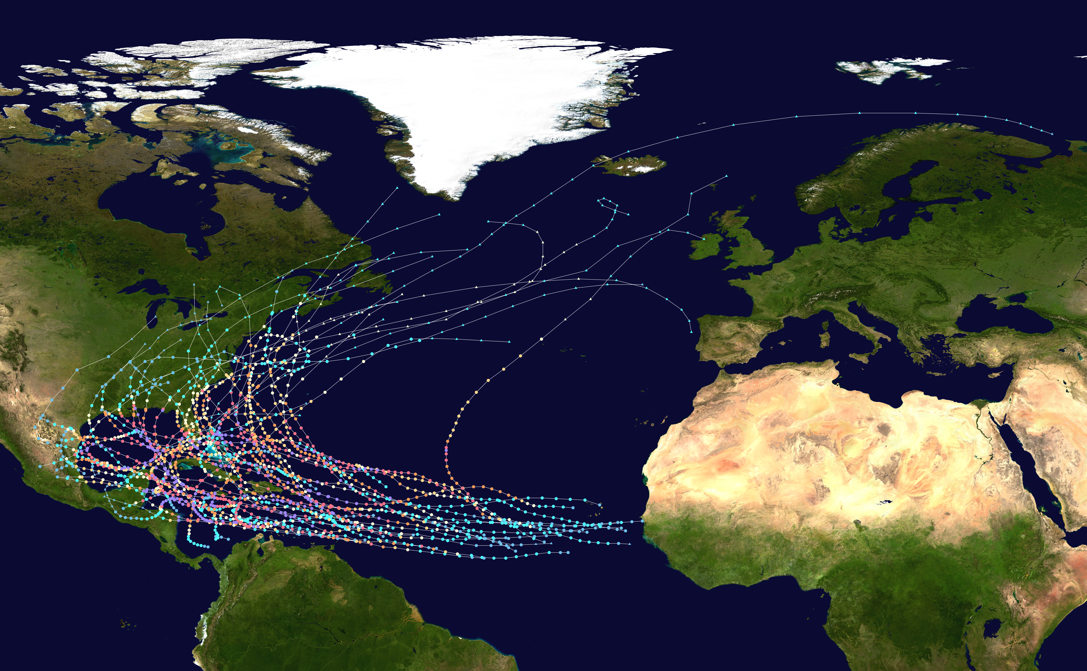 Track map of all Category 5 hurricanes in the North Atlantic Basin. The points show the location of the storm at 6-hour intervals. The colour represents the storm's maximum sustained wind speeds as classified in the Saffir-Simpson Hurricane Scale (see below), and the shape of the data points represent the nature of the storm, according to the legend below. Saffir–Simpson scale Tropical depression≤38 mph≤62 km/h Category 3111–129 mph178–208 km/h Tropical storm39–73 mph63–118 km/h Category 4130–156 mph209–251 km/h Category 174–95 mph119–153 km/h Category 5≥157 mph≥252 km/h Category 296–110 mph154–177 km/h Unknown Storm type Tropical cyclone Subtropical cyclone Extratropical cyclone / Remnant low / Tropical disturbance / Monsoon depression